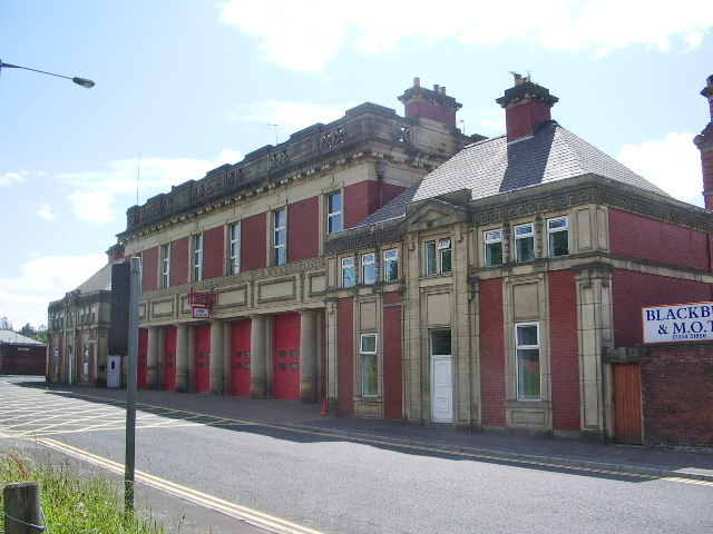 Blackburn Fire Station